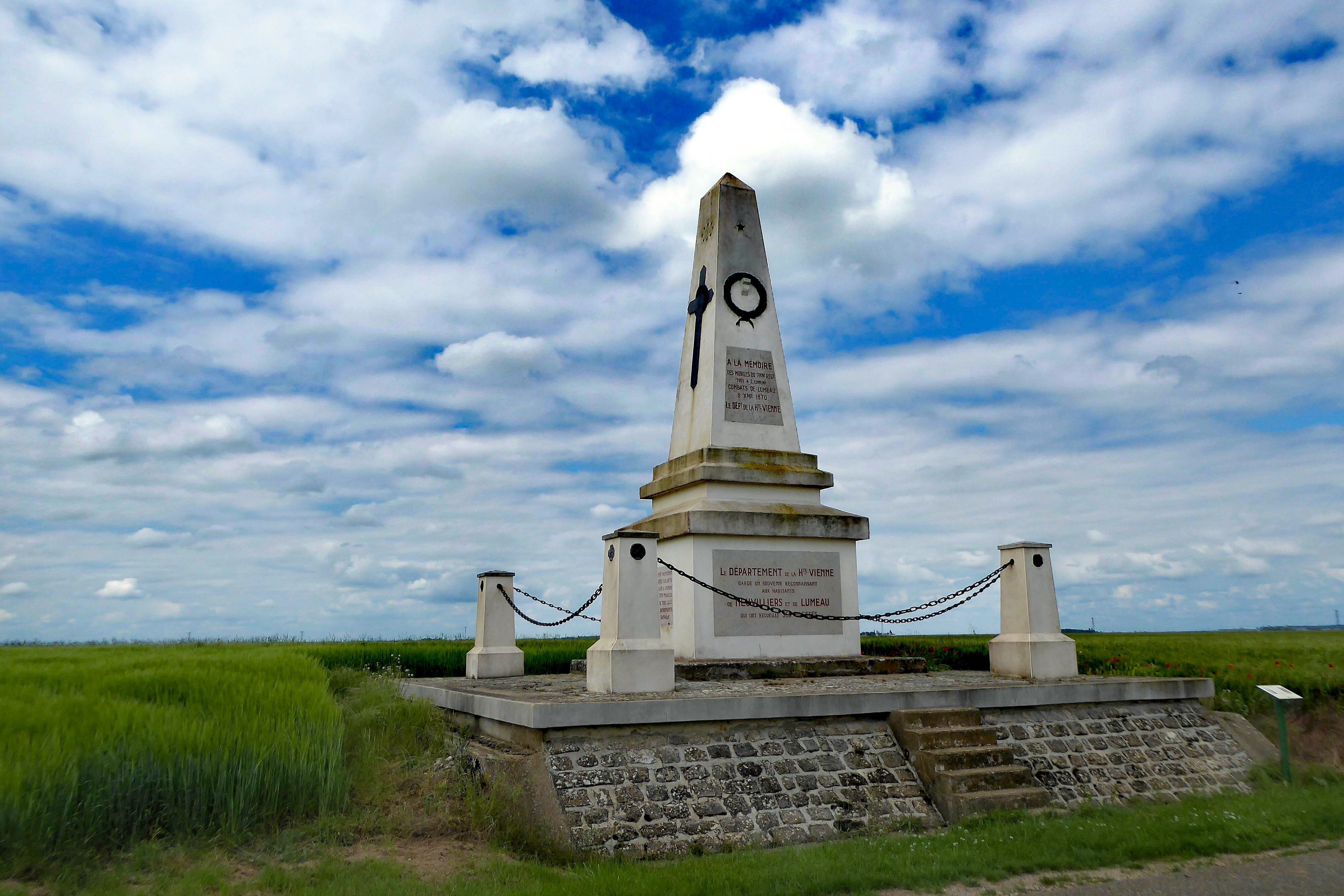 Battle of Loigny–Lumeau-Poupry ; fight at Lumeau and Neuvilliers on 2nd December 1870 ; Ossuary of 1100 French soldiers and 40 German soldiers.